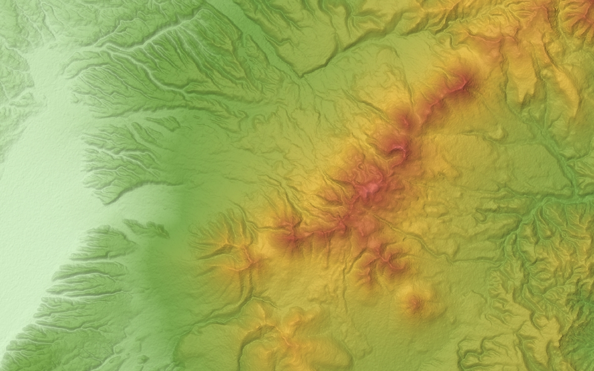 Tokachidake Volcano Group in Hokkaido, Japan.